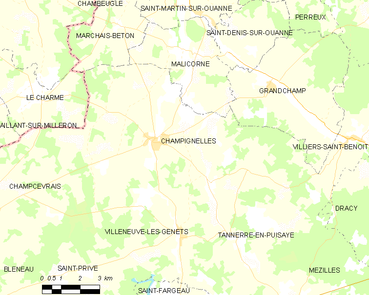 Map of French municipality Champignelles